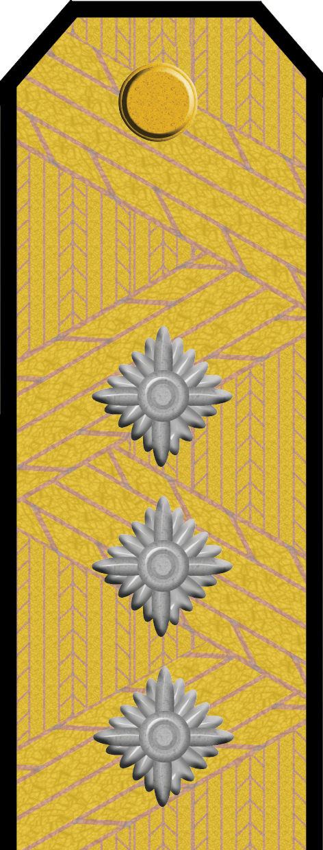 Bulgarian army Lieutenant General rank insignia